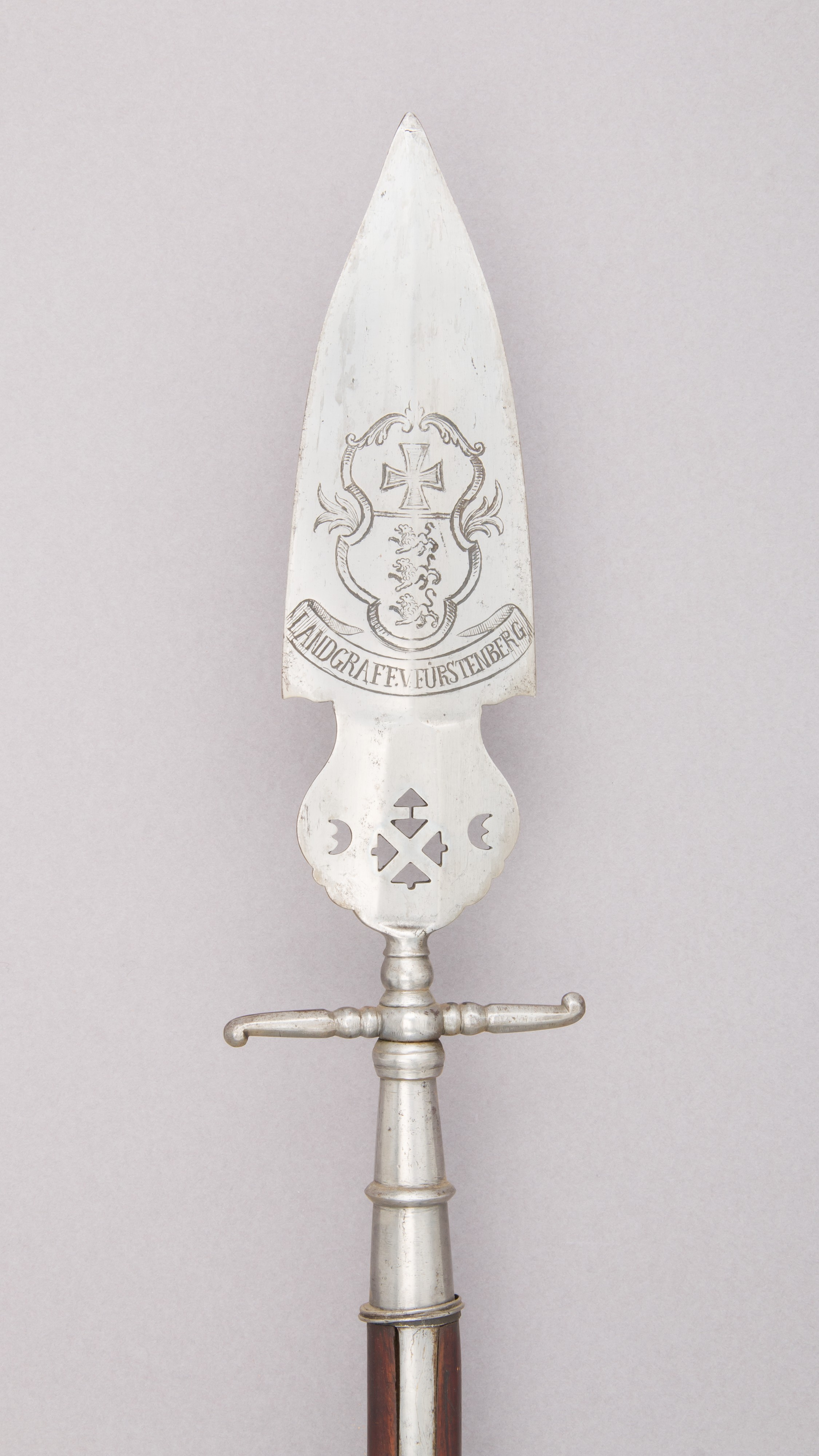 German; Spontoon; Shafted Weapons